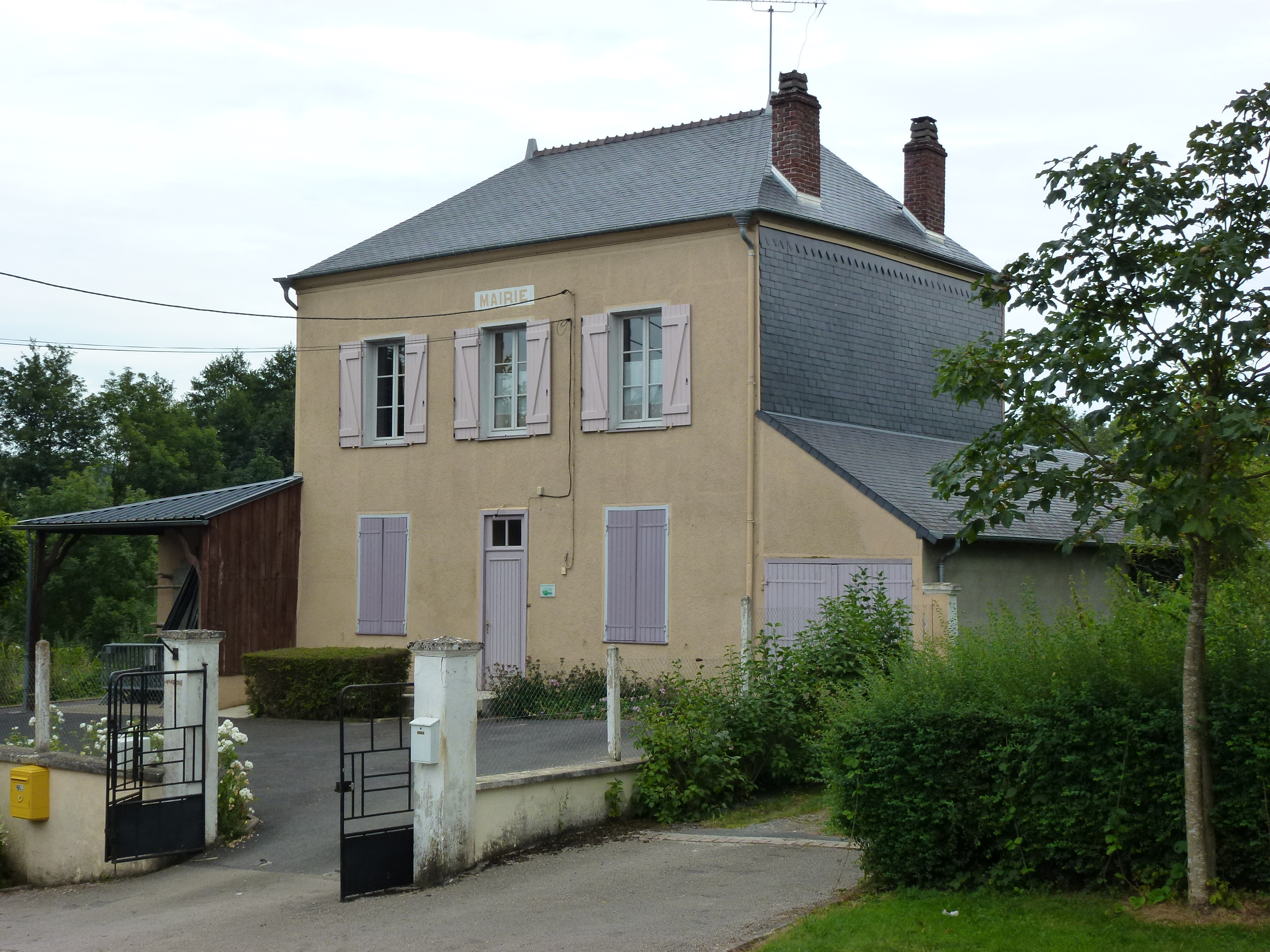 Givron (Ardennes) mairie